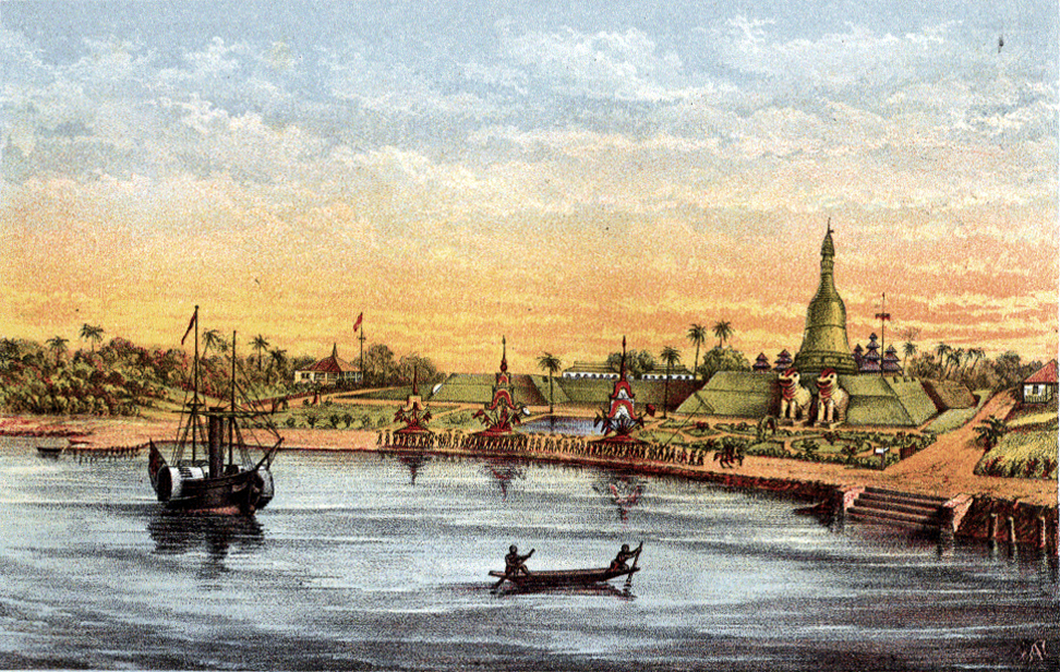 Artist rendition of Bassein (now Pathein) shoreline in the late 1800s (Burma).